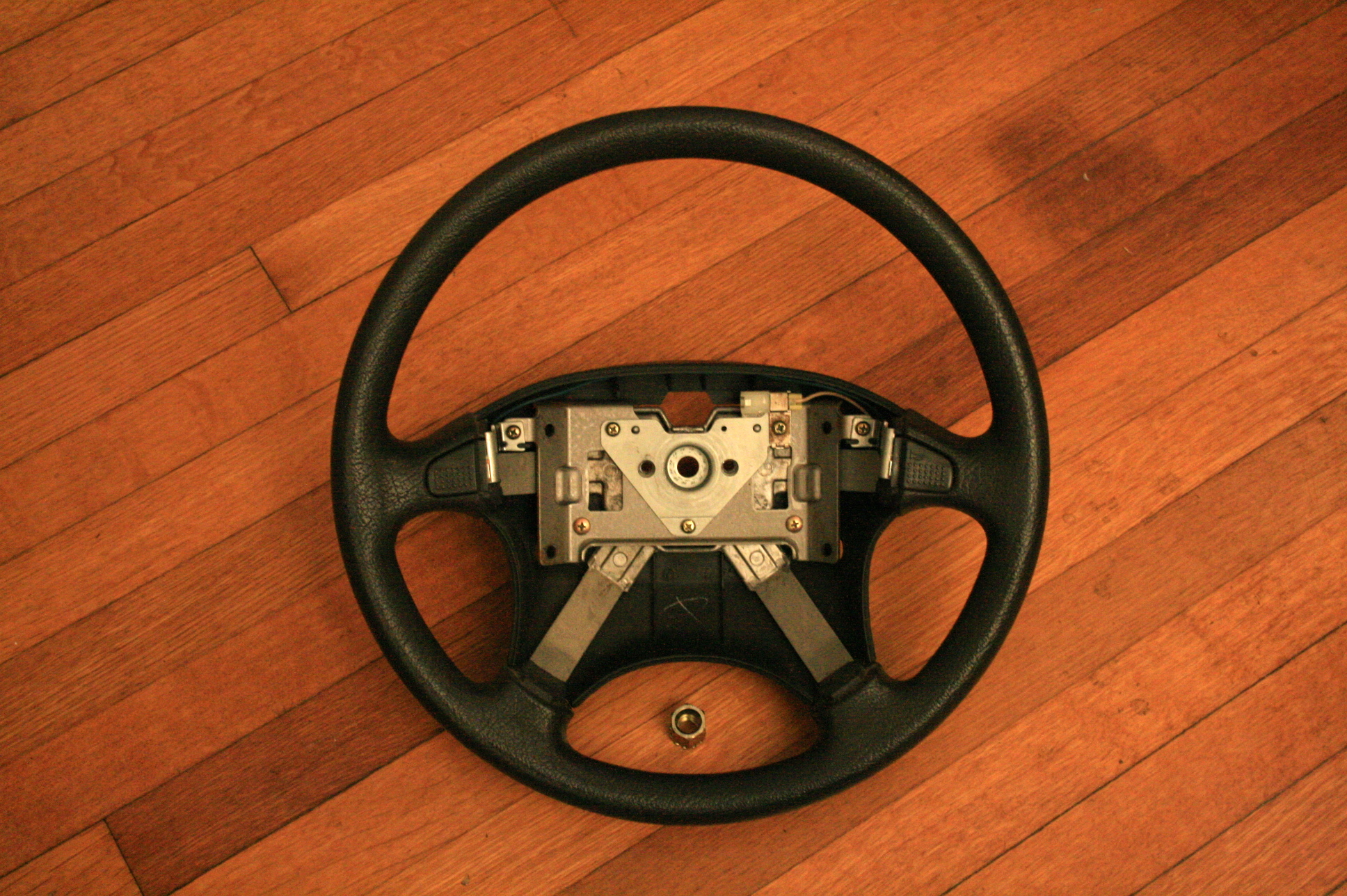 Steering wheel from a 1990 Geo Storm GSi, with the air bag module removed.